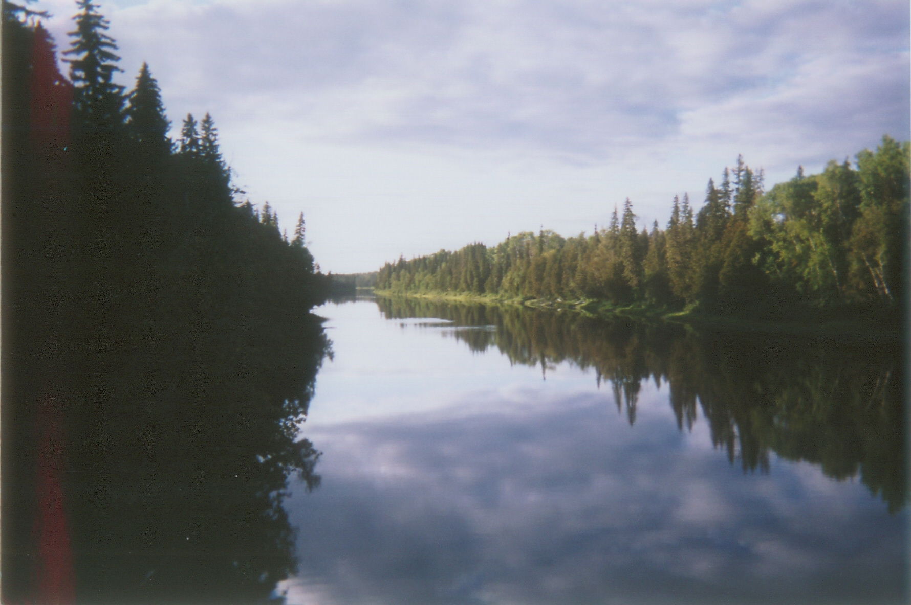 Sunset on Missinaibi River, Ontario, Canada